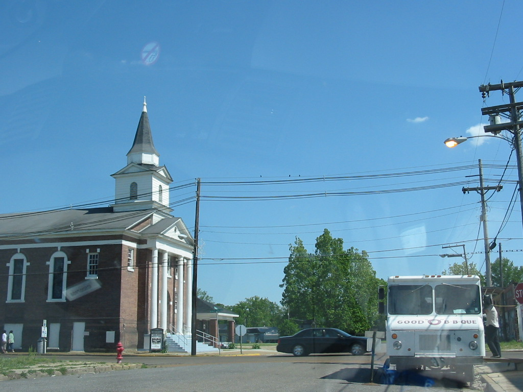 Clarksdale, Mississippi